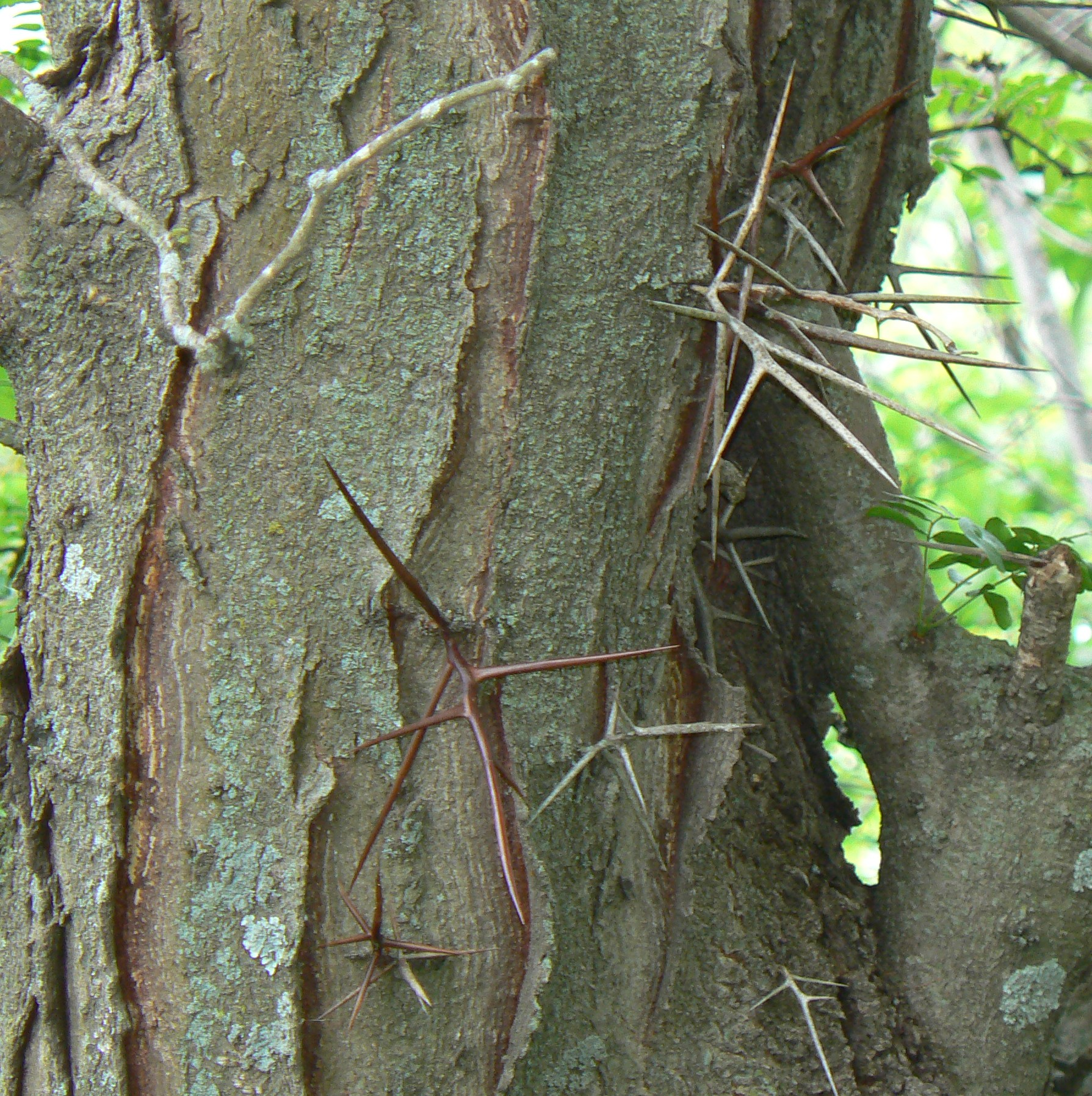 Bark and thorns of the Honey Locust